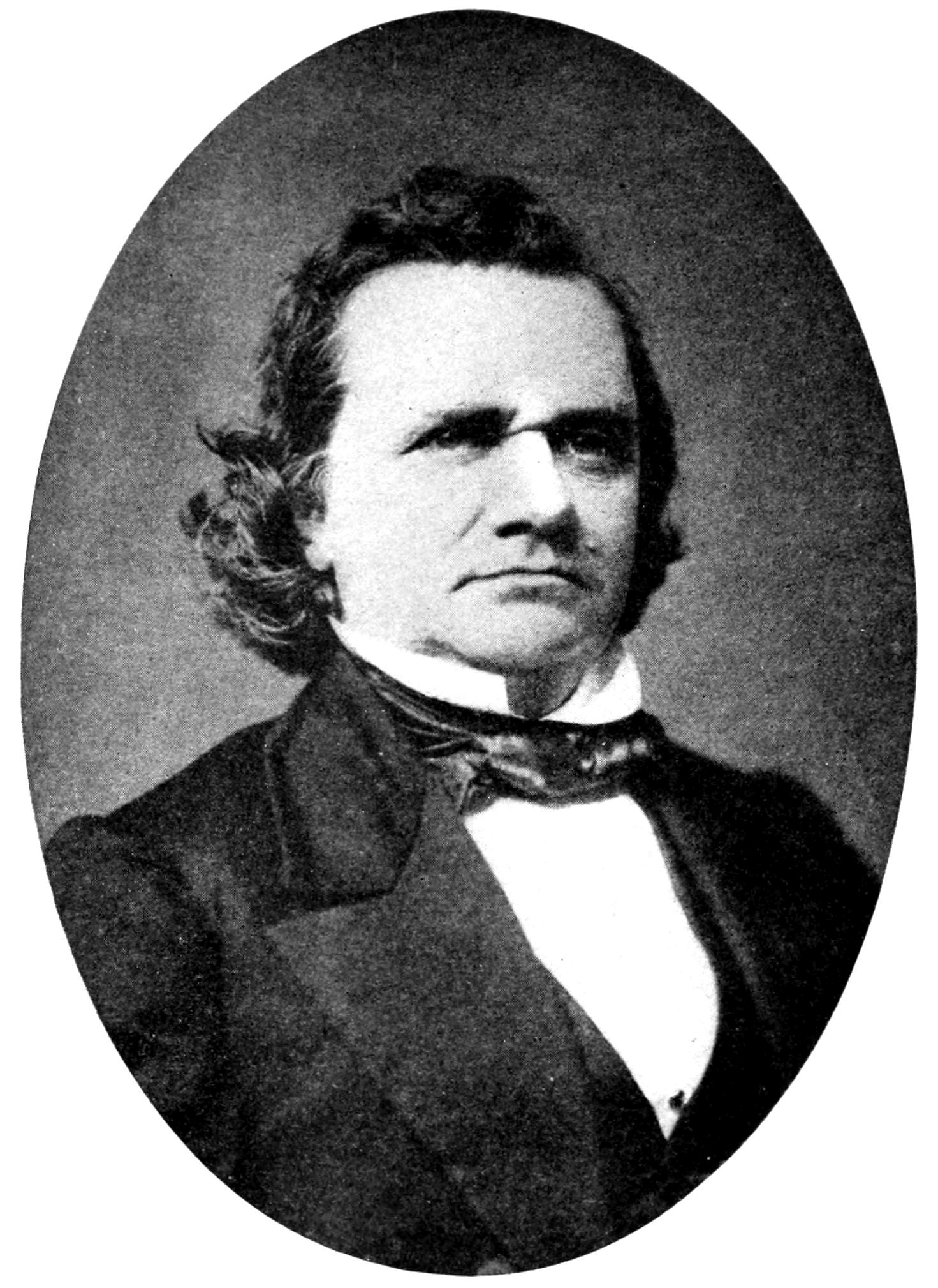 STEPHEN A. DOUGLAS. From a photograph in the collection of the Illinois Historical Library, supposed to have been made in 1858.